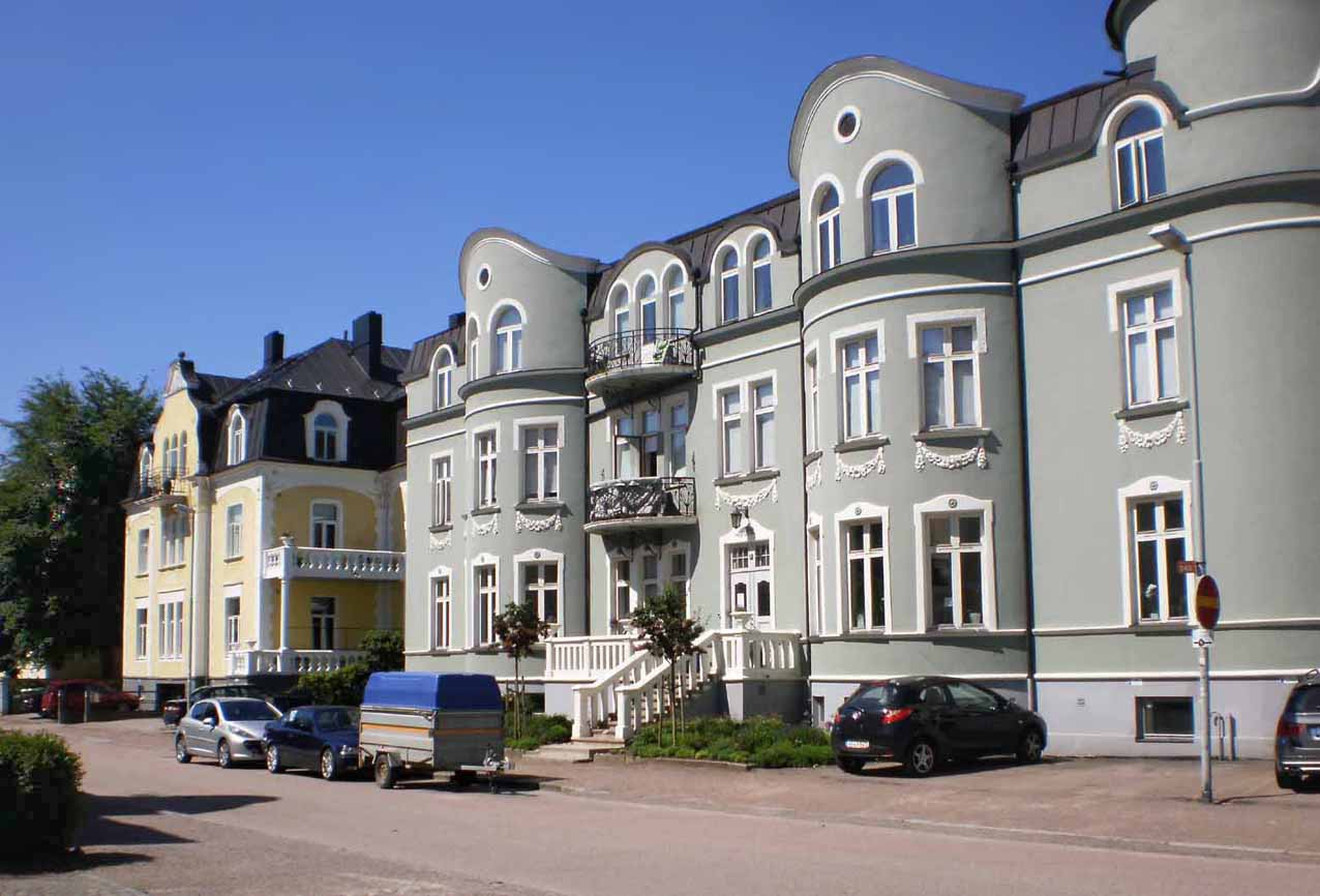 Olympia, Helsingborg 2010